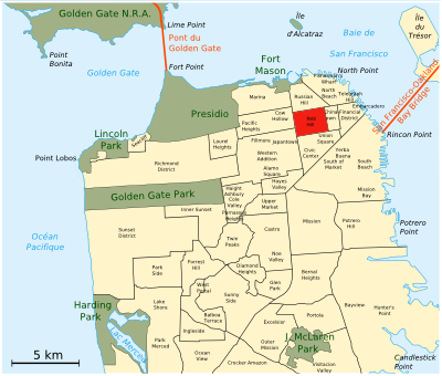 Map of Nob Hill, San Francisco, California, USA